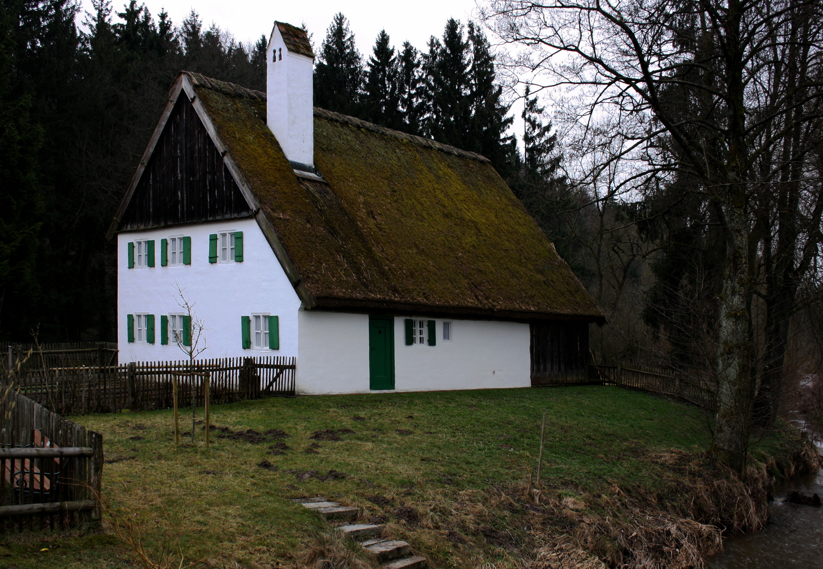 Open air museum Staudenhaus (Oberschoenenfeld near Augsburg, Bavaria, Germany). Total view.